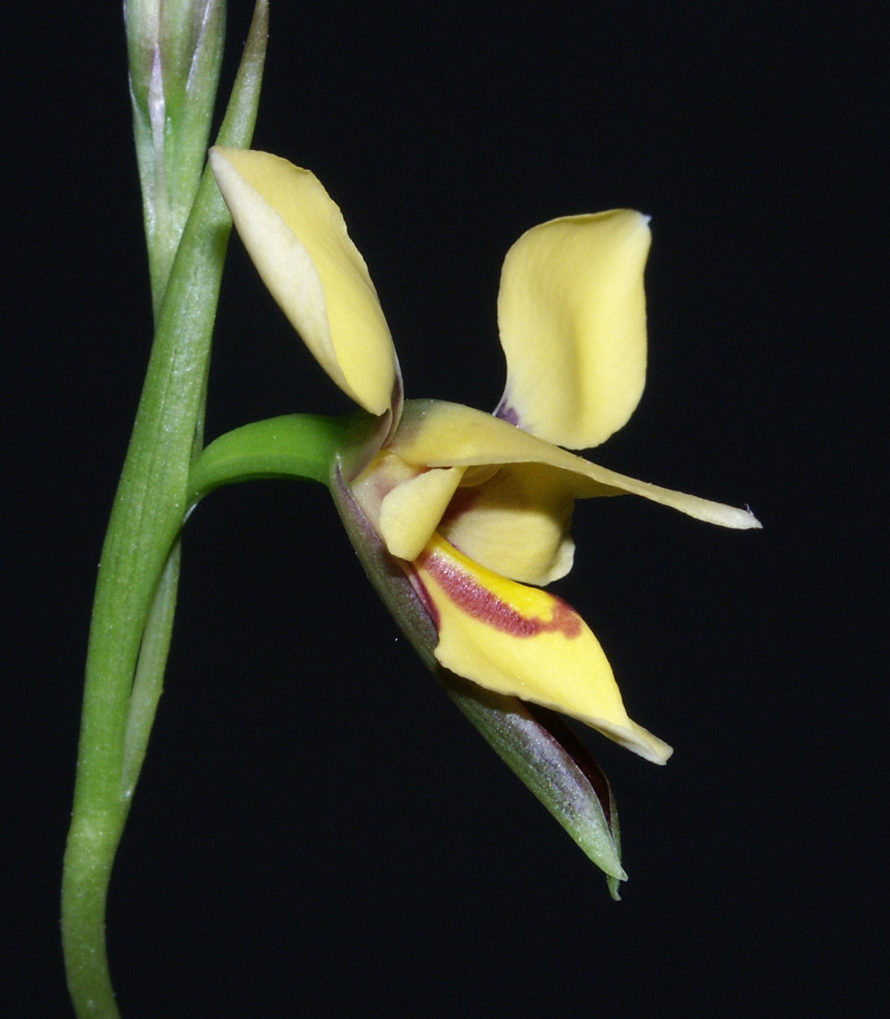 Diuris drummondii 'Buttery', plant in cultivation